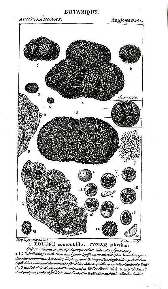 Life cycle of Tuber cibarium, former name of Tuber melanosporum.